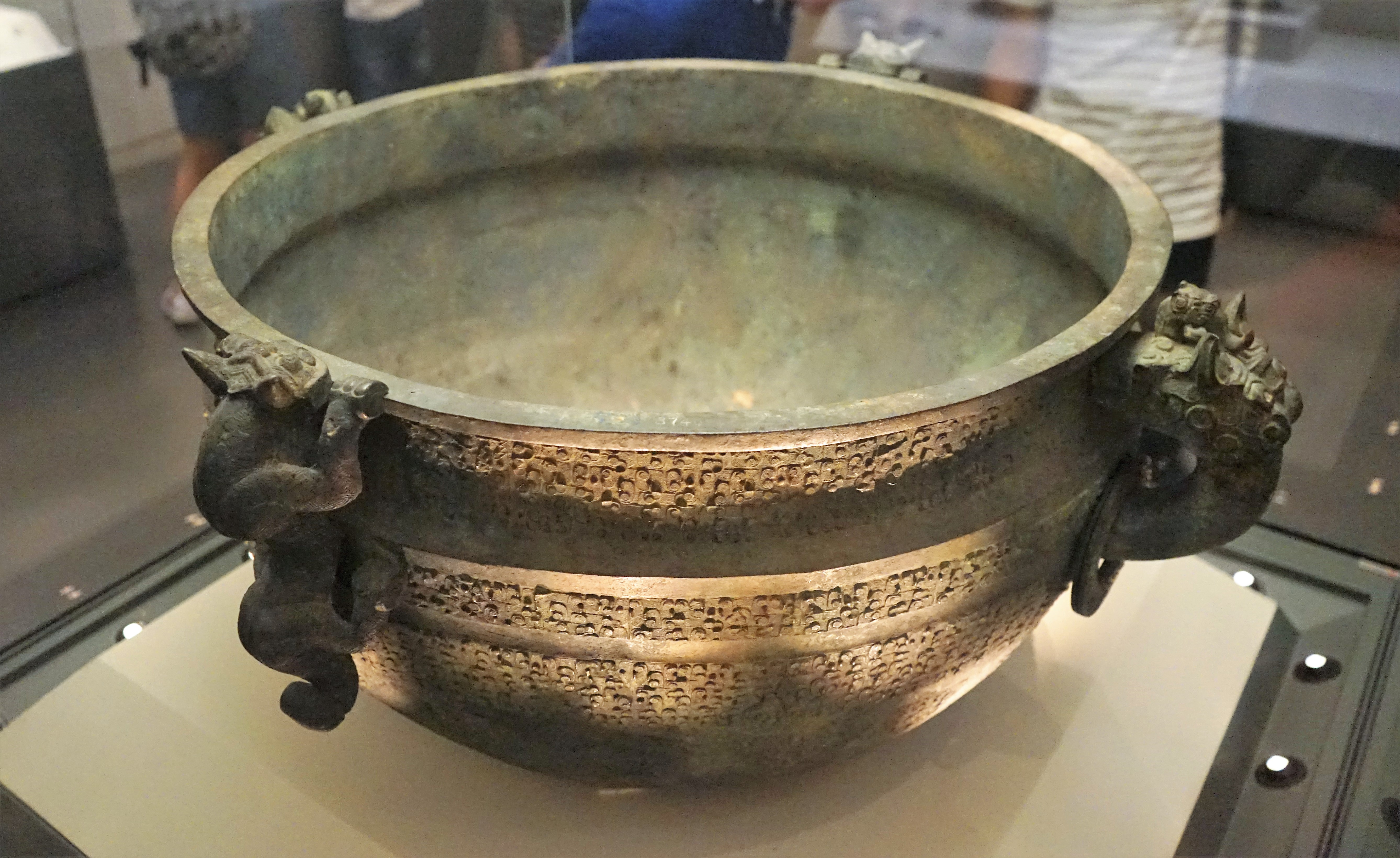 "Wu Wang Fuchai" Bronze Jian (water container). Spring and Autumn period, Wu state. Reportedly unearthed at Liulige, Hui County, Henan. The inscriptions inside says it was conmissioned and used by Fuchai.